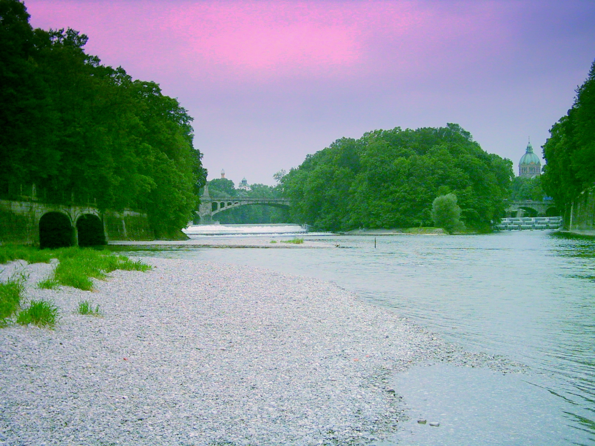 Munich: Orifice of Auer Mühlbach into Isar river (left), Praterinsel, Maximiliansbrücke